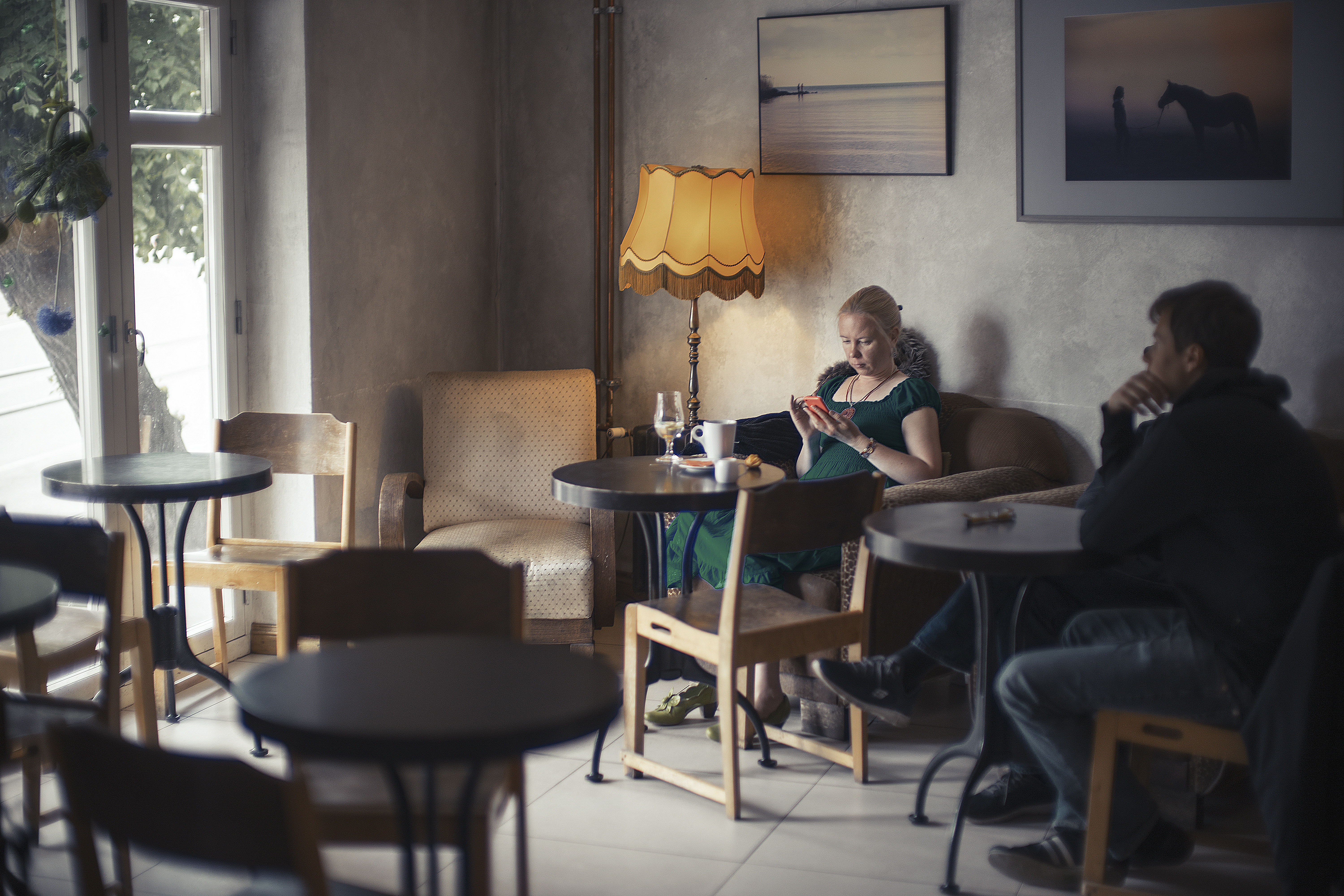 Helsinki to Tallinn Keep